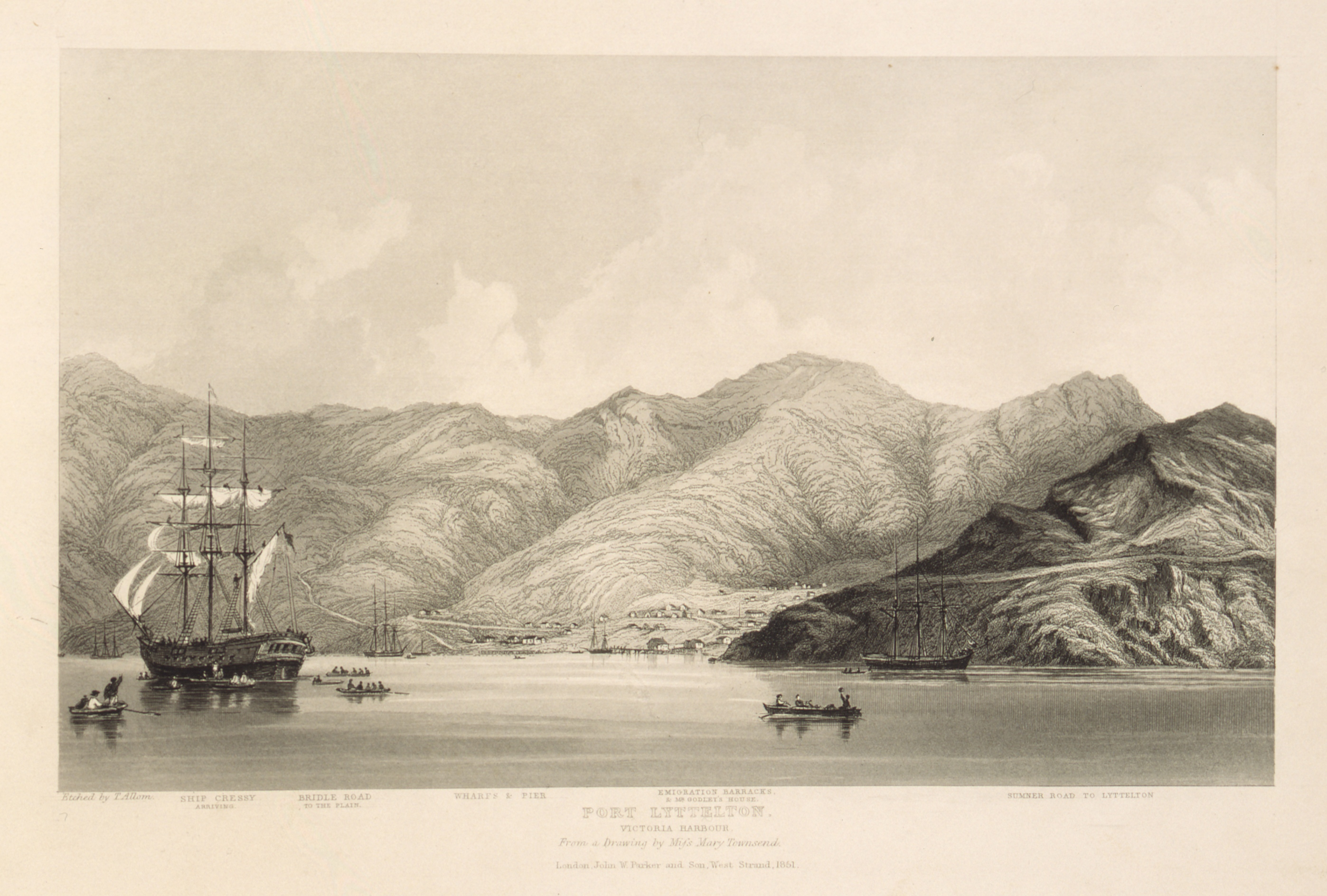 Townsend, Mary, 1822-1869. Townsend, Mary, 1822-1869 :Port Lyttelton. Victoria Harbour. Etched by T. Allom. From a drawing by Miss Mary Townsend. London, John W. Parker, 1851.. Fox, William 1812-1893 :Four illustrative views of the Canterbury settlement with descriptions; I. Port Lyttelton. II. Landing of the passengers from the "Cressy". III. Part of the great plain. IV. The Rivers Courtenay and Hinds. / From drawings made on the spot, by Miss Mary Townsend and William Fox Esq. London, John W Parker & Son ... 1851. Ref: PUBL-0001-1. Alexander Turnbull Library, Wellington, New Zealand.